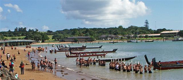 Traditional maori Waitangi Day celebrations at Waitangi, Paihia.